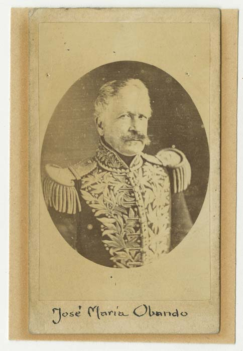 José María Obando, President of Colombia from 1831 to 1832, 1853 to 1854.